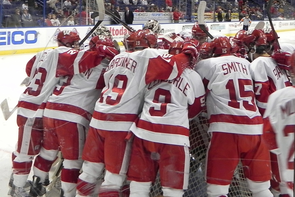 Wisconsin Badgers men's ice hockey pregame huddle in a game against Boston University on October 8, 2010 at the 2010 Warrior Ice Breaker Tournament.